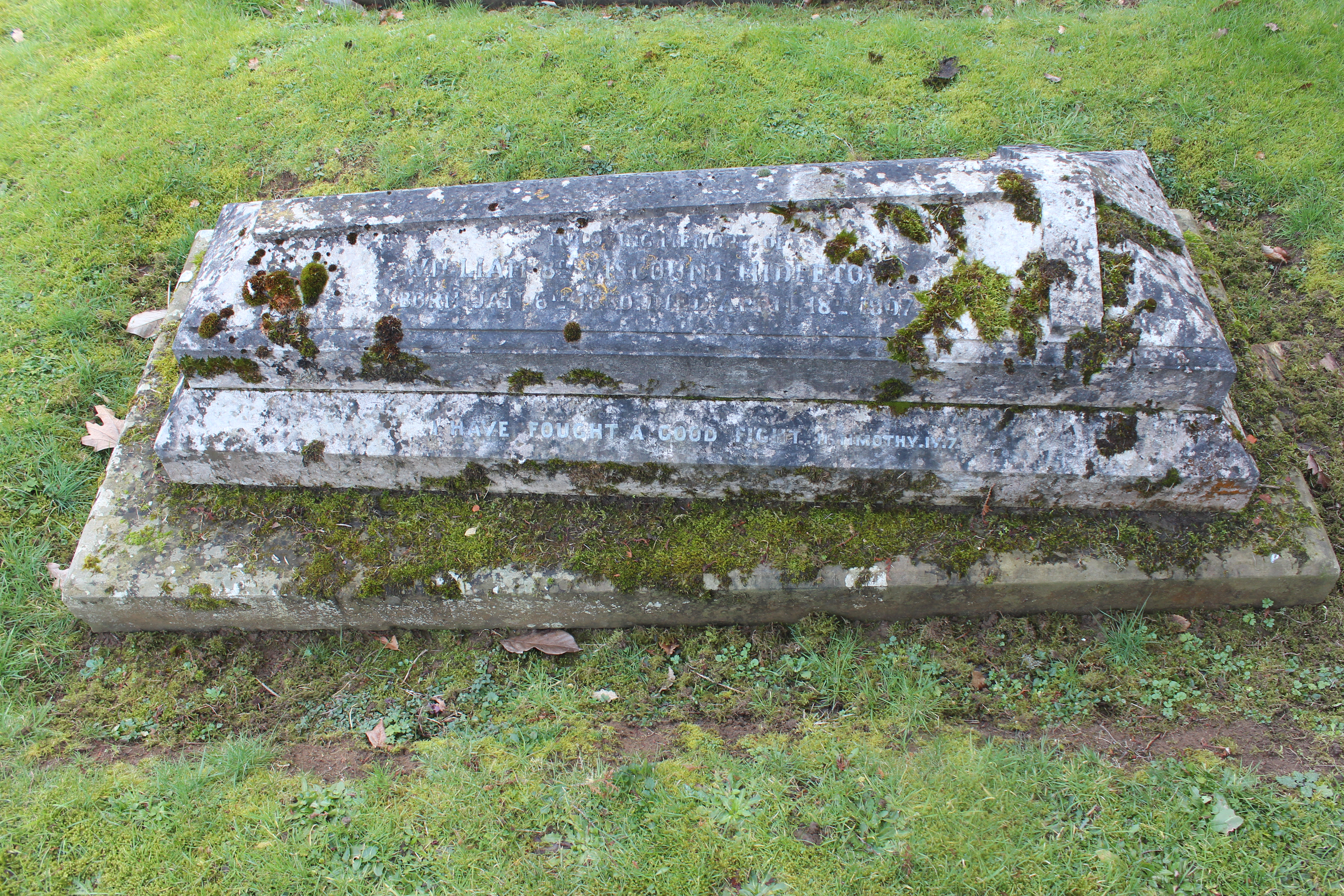 Grave of William Brodrick, 8th Viscount Midleton